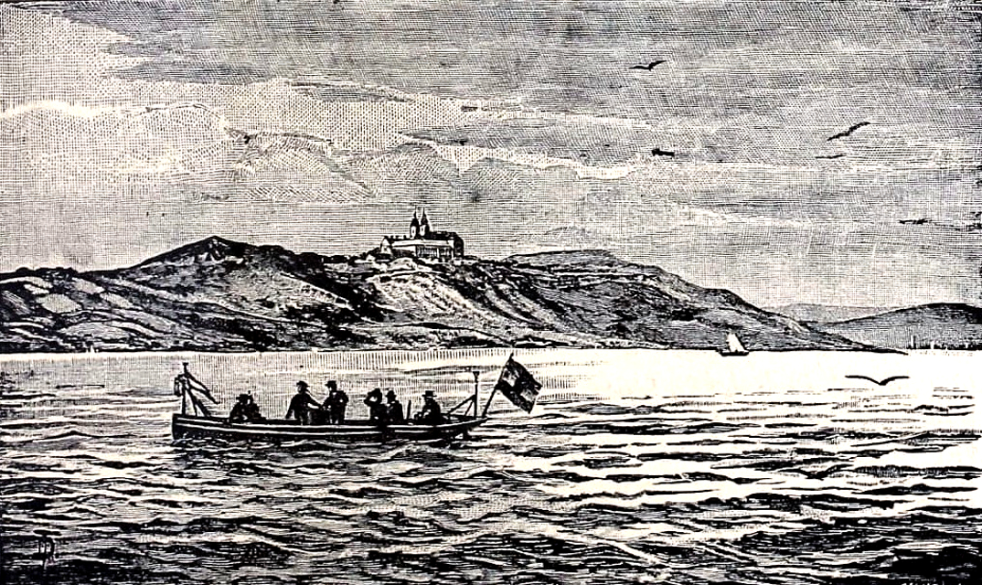 A Balaton tudományos tanulmányozásának eredményei (Magyar Földrajzi Társaság, 1897–1920, 32 kötet) illusztrációja